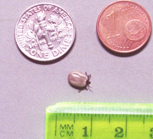 Ixodes scapularis (deer tick, black-legged tick), engorged after a blood meal. Removed from an adult human in Eastern Massachusetts in the Spring of 2007.